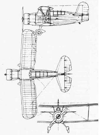 Line drawings for the U.S. Navy Curtiss SOC Seagull. Normally a floatplane, the SOC could also be fitted with a conventional undercarriage.